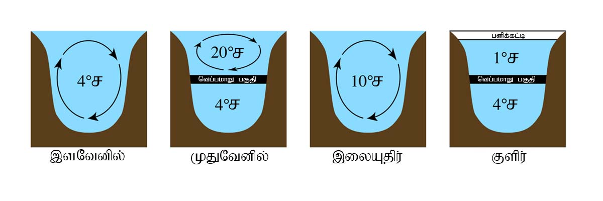 Lake temperature through seasons